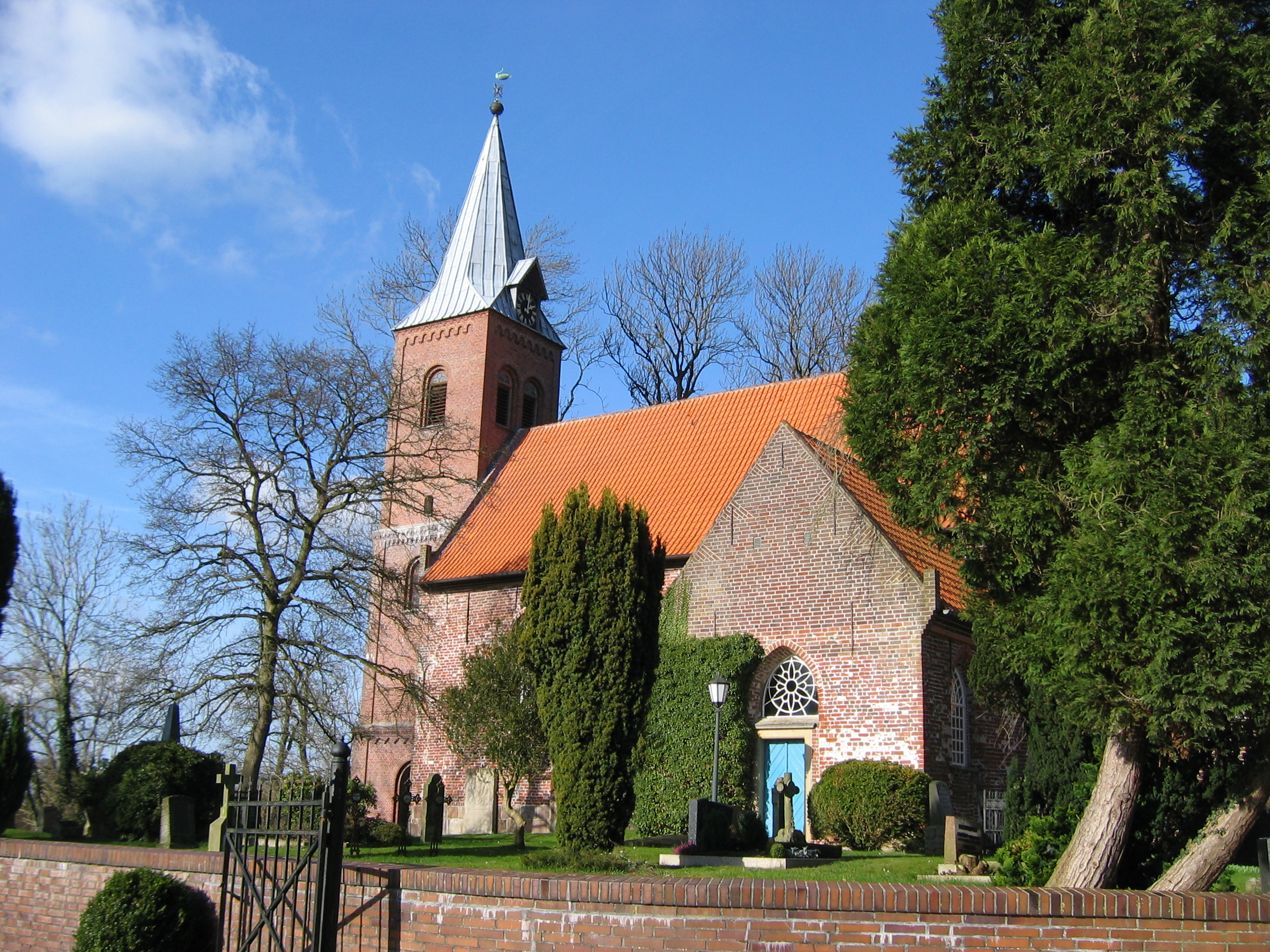 St.-Stephanus-Church, Fedderwarden, Wilhelmshaven, Germany